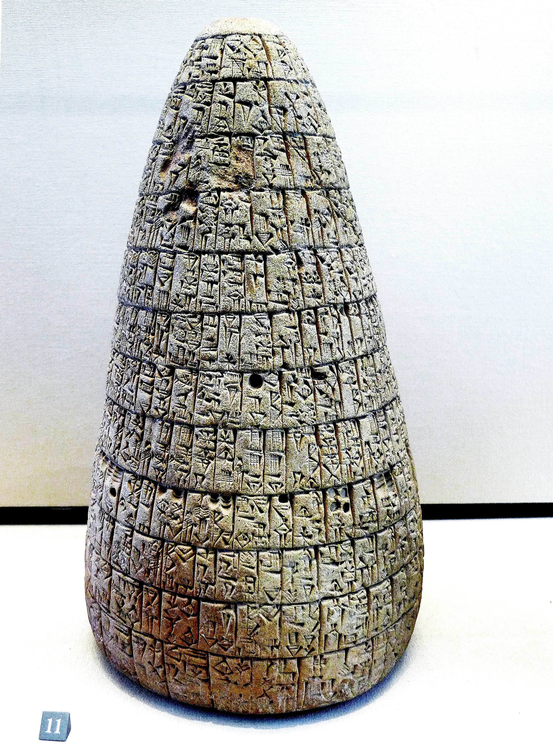 Exact transcription. This is AO 3149 in the Louvre Museum